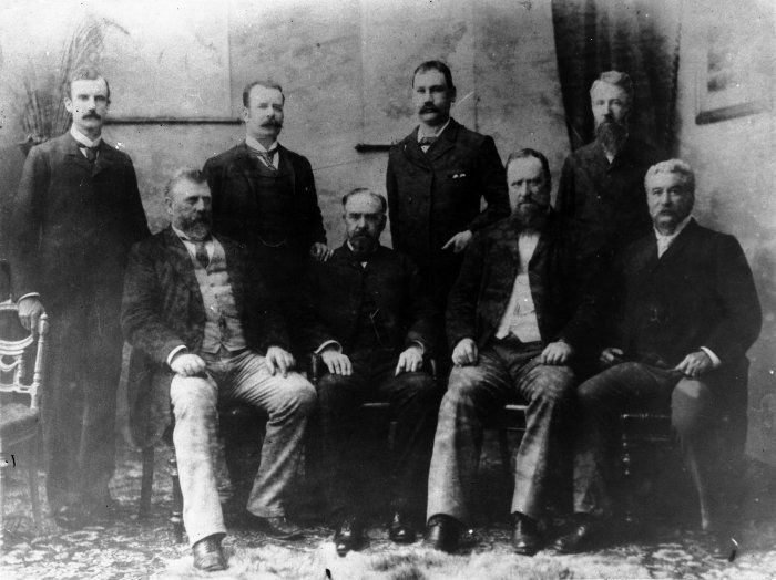 Shows John Ballance with members of his Cabinet in 1892: Front row from left: Richard Seddon, John Ballance, John McKenzie, Patrick Buckley; Back row from left: William Pember Reeves, Joseph Ward, James Carroll and Alfred Cadman.